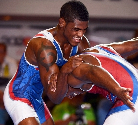 In a battle of 2012 Olympians and U.S. Army World Class Athlete Program teammates, Pfc. Ellis Coleman (left) has the upper hand on WCAP teammate Spc. Justin Lester, who rallied to win their showdown in the finals of the 66-kilogram/145.5-pound ..